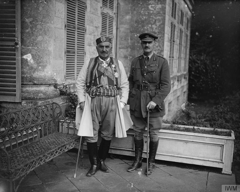 Royal Visits To the Western Front, 1914-1918 King Nicholas I Petrovic of Montenegro and Lieutenant General Sir Edmiund Henry Hynman Allenby at Bryas, North of St. Pol, November 1916.